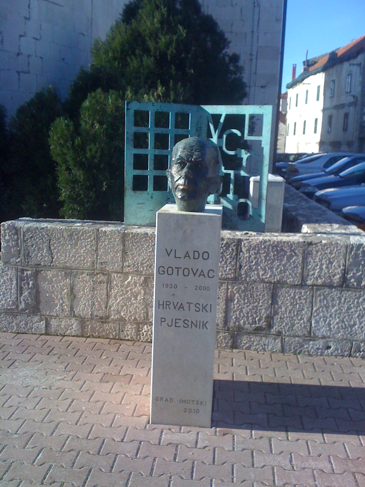 Bust of Vlado Gotovac in Imotski